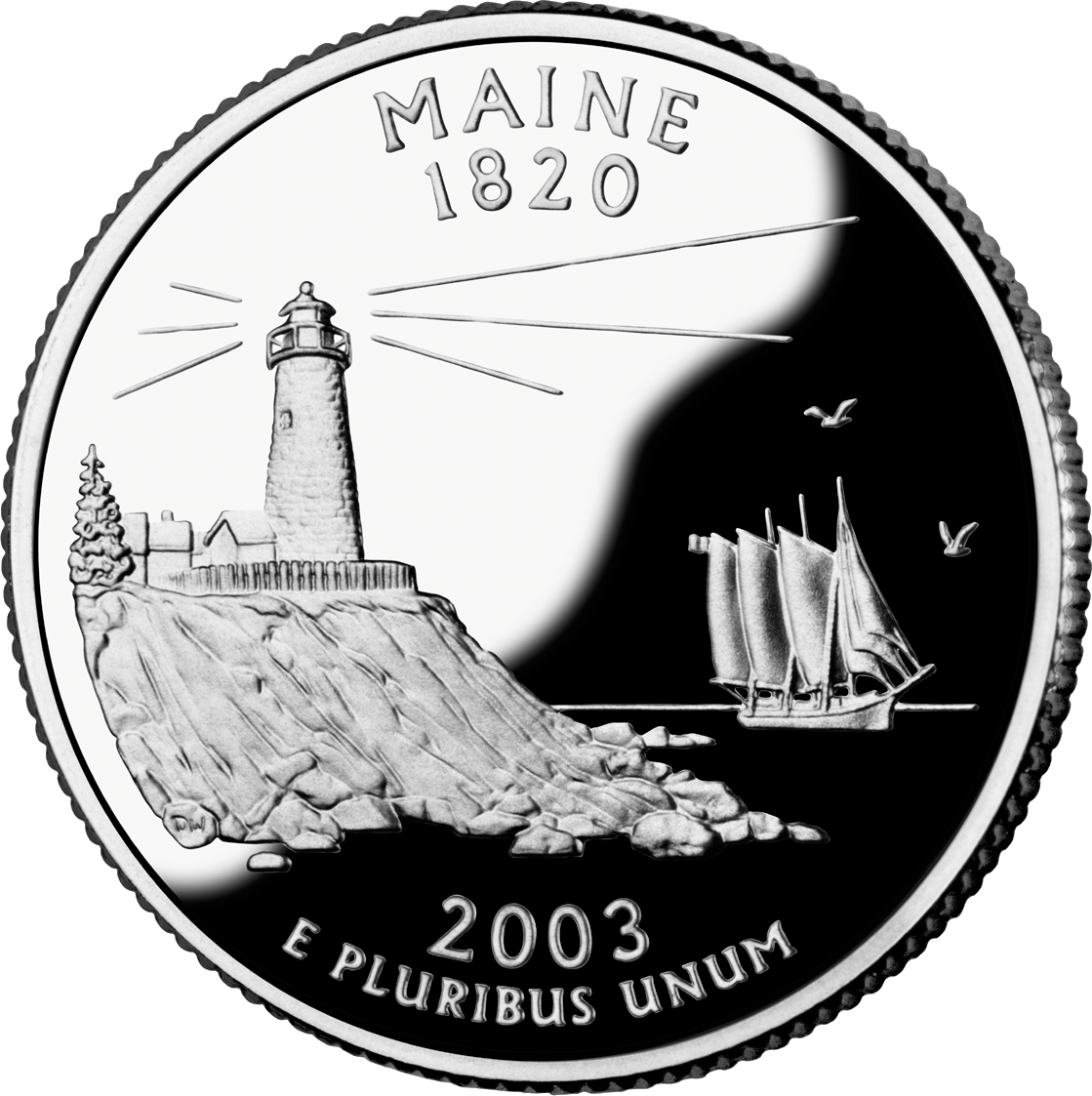 Maine Statehood Quarter, showing an artist's impression of Pemaquid Point Lighthouse. Removed background, cropped, and converted to PNG with Macromedia Fireworks.